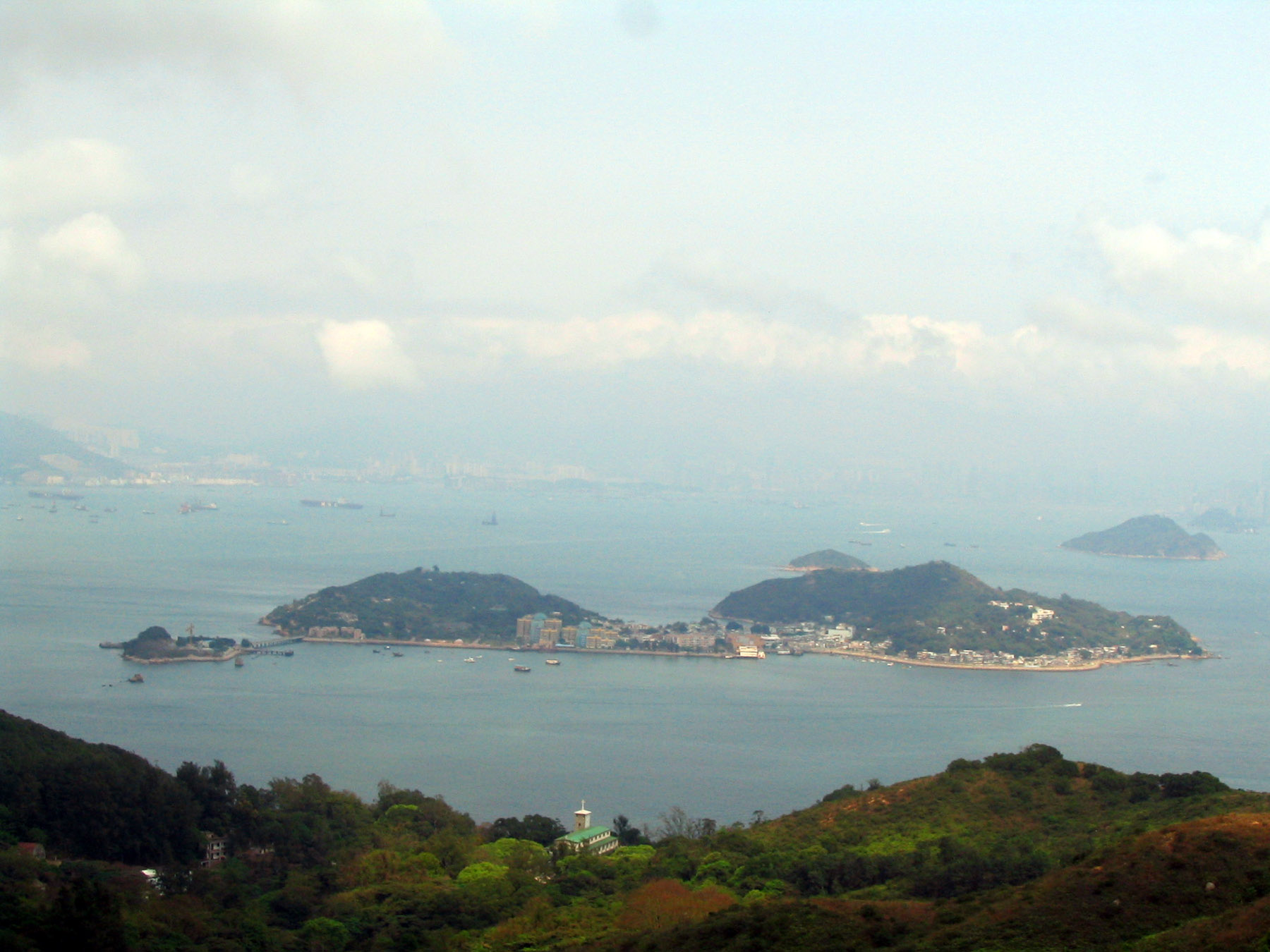 Taken by Ngchikit on 1st April 2007 from Lantau Island. Upload from en.wiki.